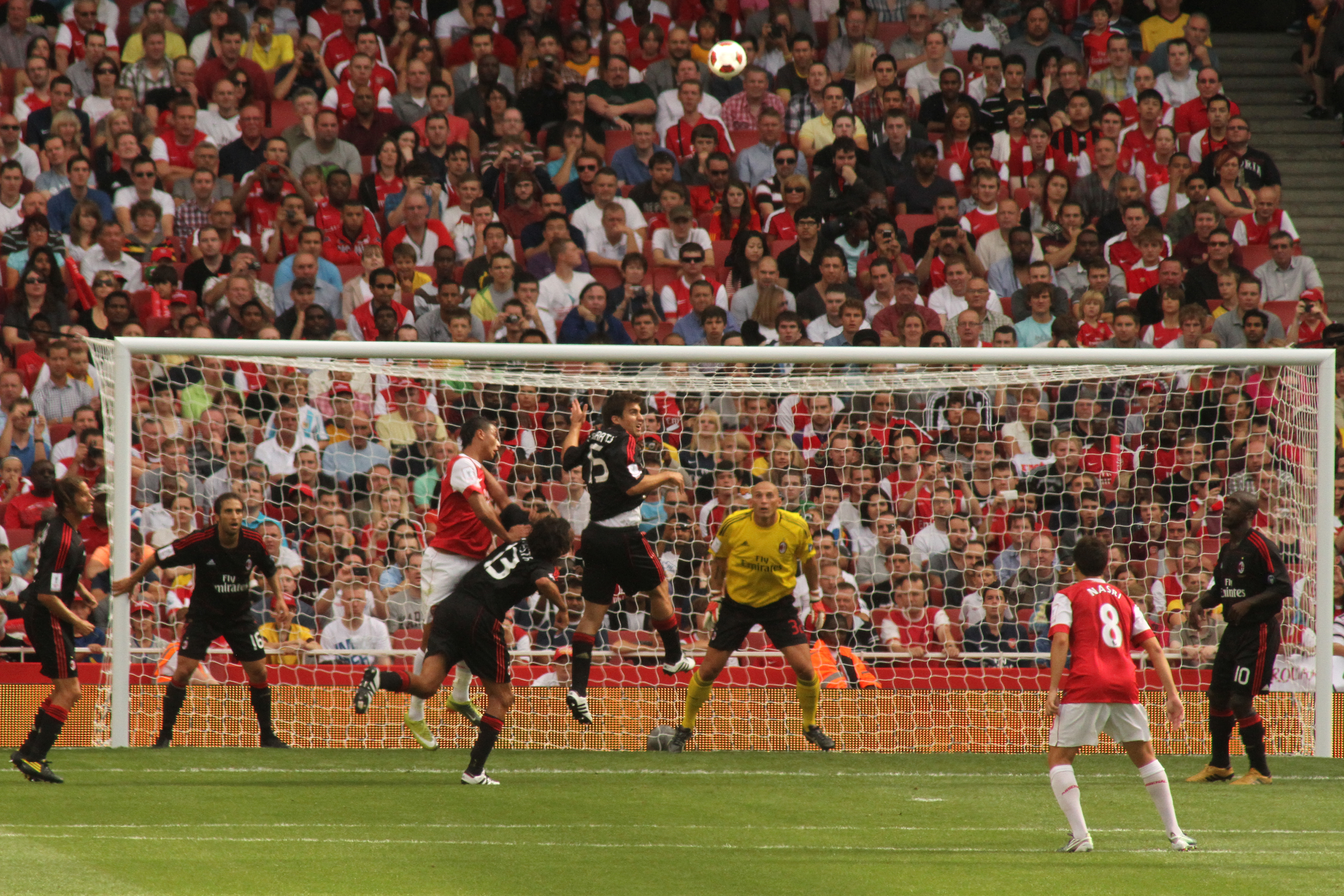 Goal mouth scramble